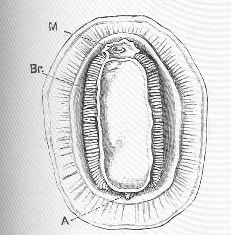 Chiton squamosus L., Bermuda: A, anus; Br, branchiae; M, mouth Subject: Chiton (Genus) Tag: Mollusks